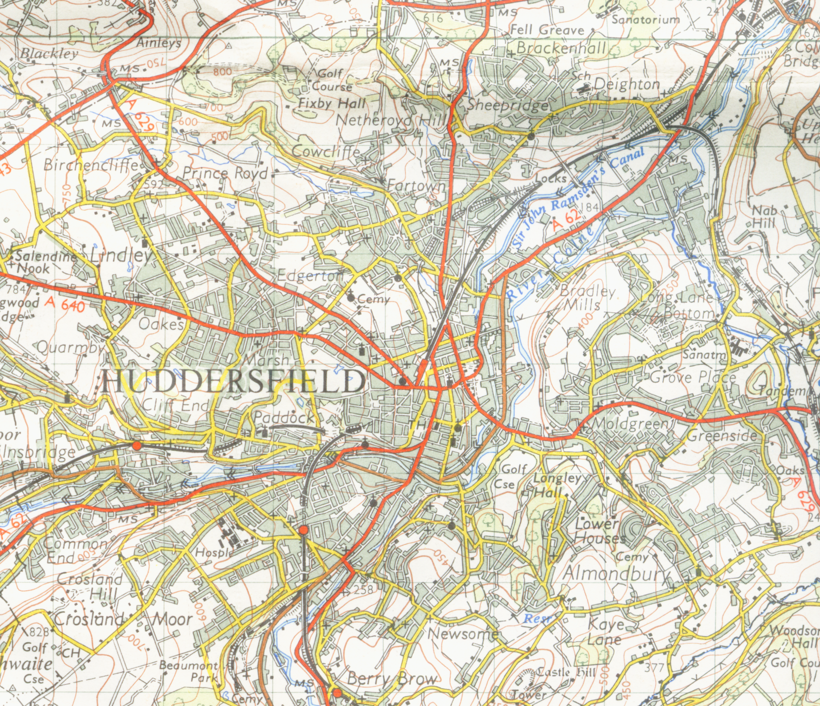 Map of Huddersfield from 1954. Scale 1 inch to the mile 600DPI Sheet 102 "Huddersfield" series 7